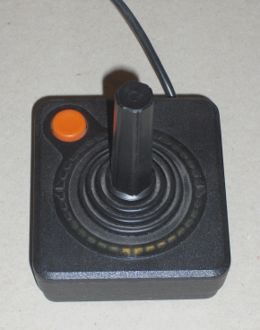 Atari 2600 Joystick